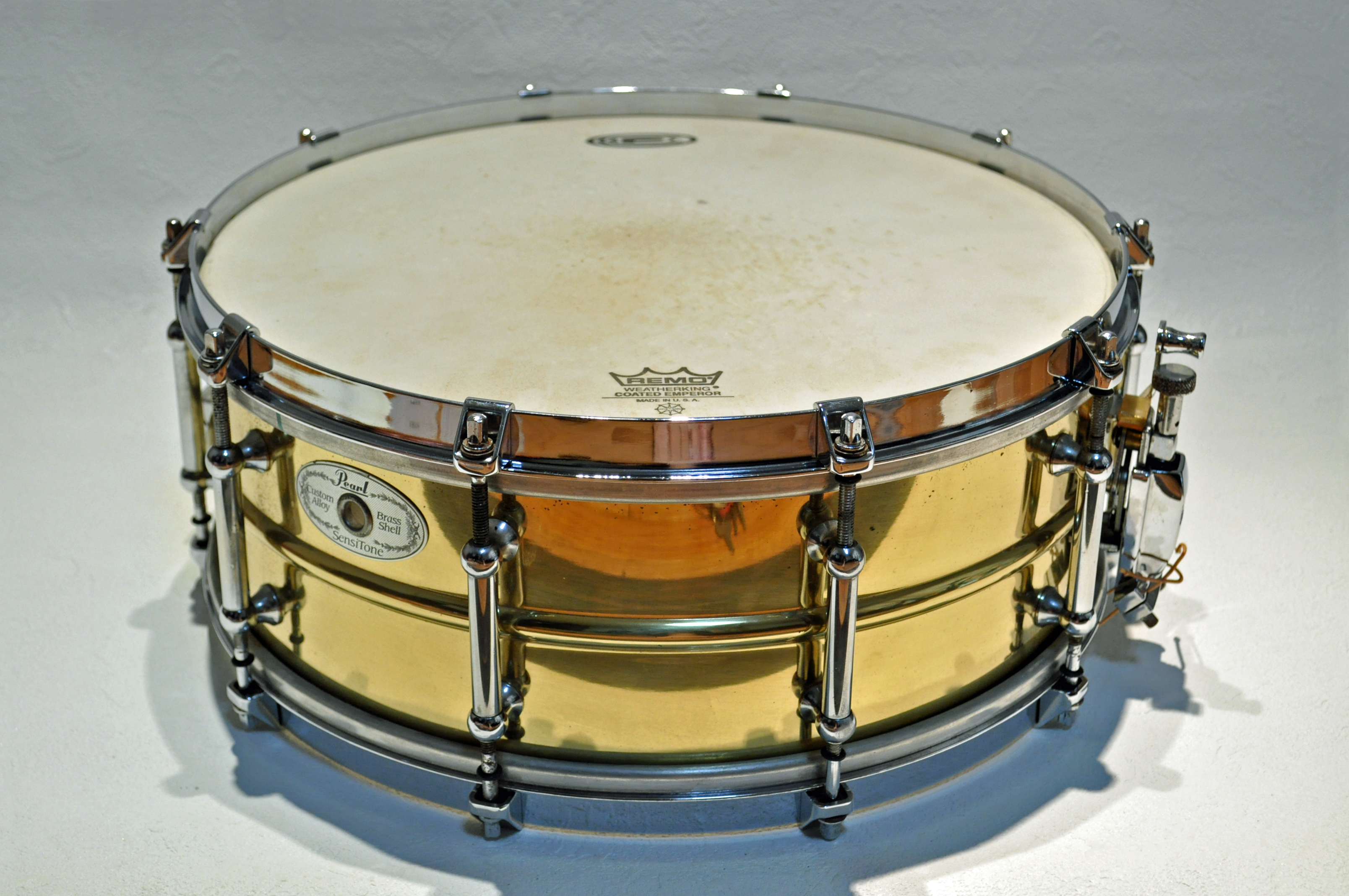 Pearl Sensi-Tone Classic 2 Brass shell 14*5